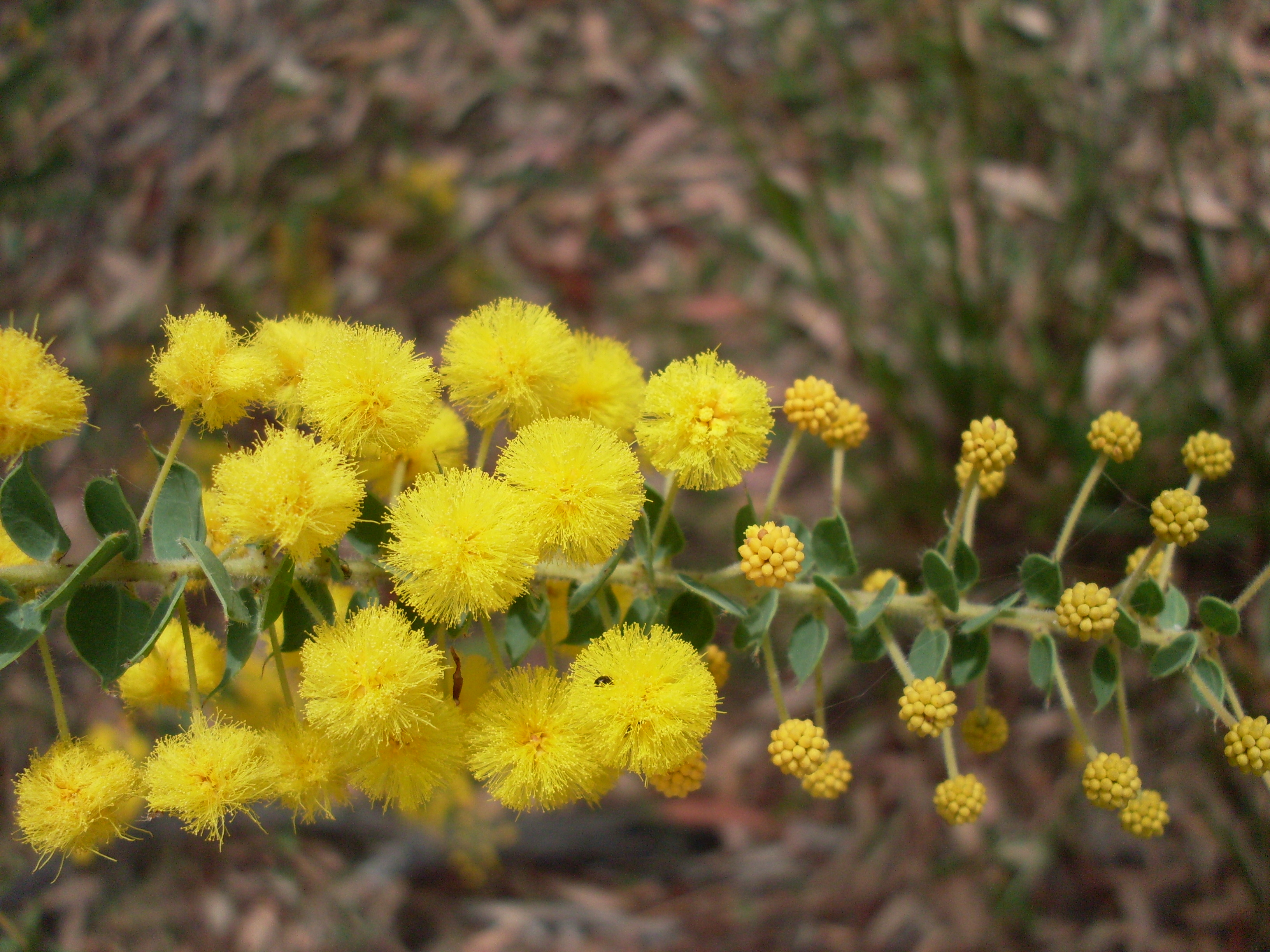 Acacia uncinata. Munghorn Gap Nature Reserve, NSW Australia, January 2009.